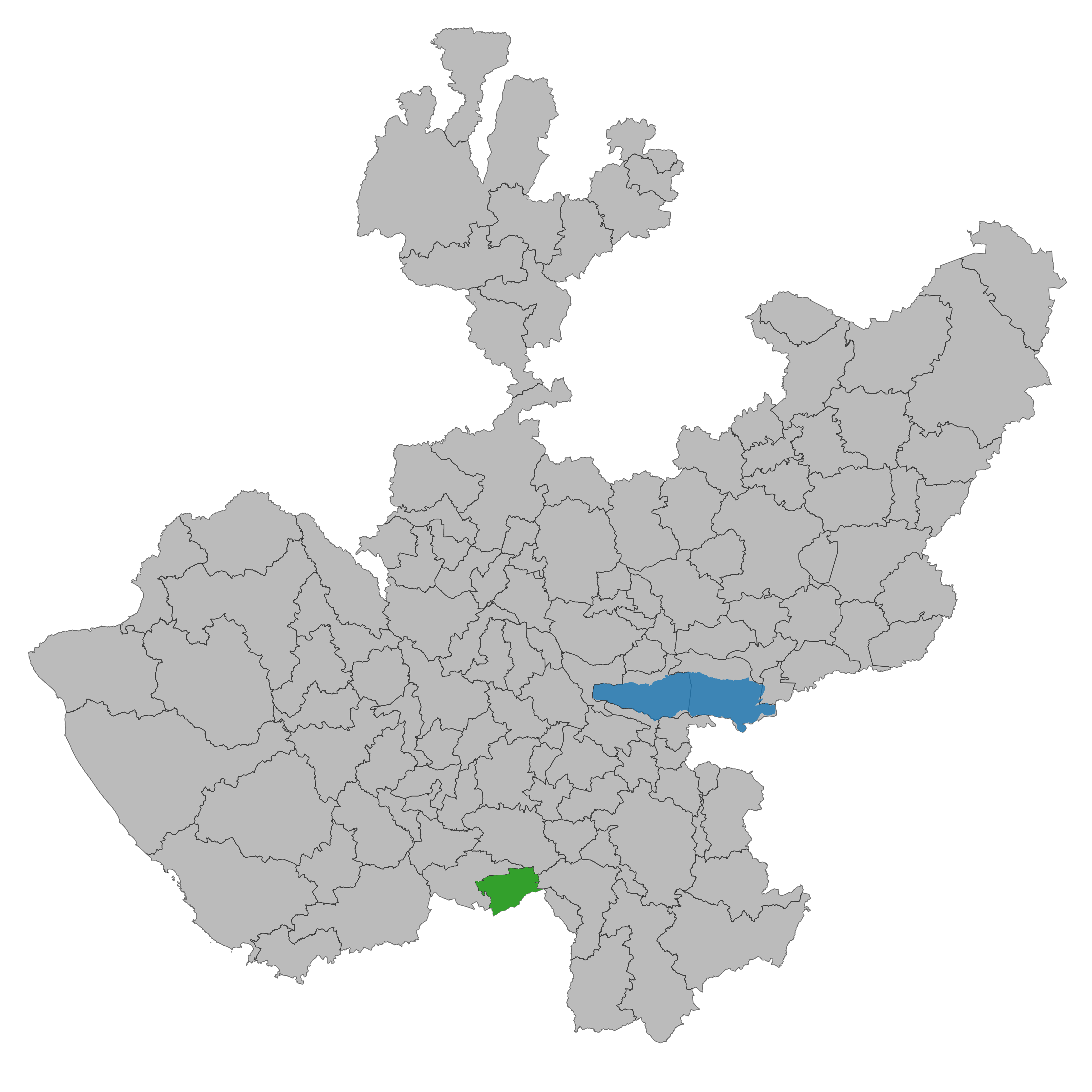 Municipality of Jalisco. Prepared with the software QGIS version 2.8.2 Wien & with information of SCINCE 2010 version 05/2013